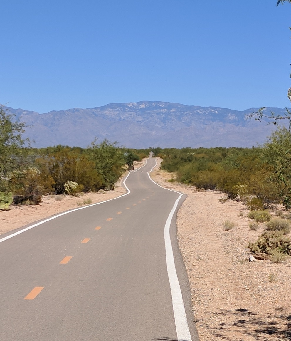 The view north along a stretch of the Harrison Greenway, a multi-use path on the eastern edge of Tucson.